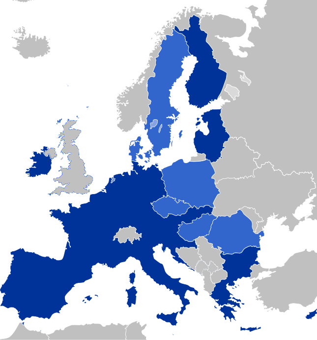 Eurozone inside European Union in 2018